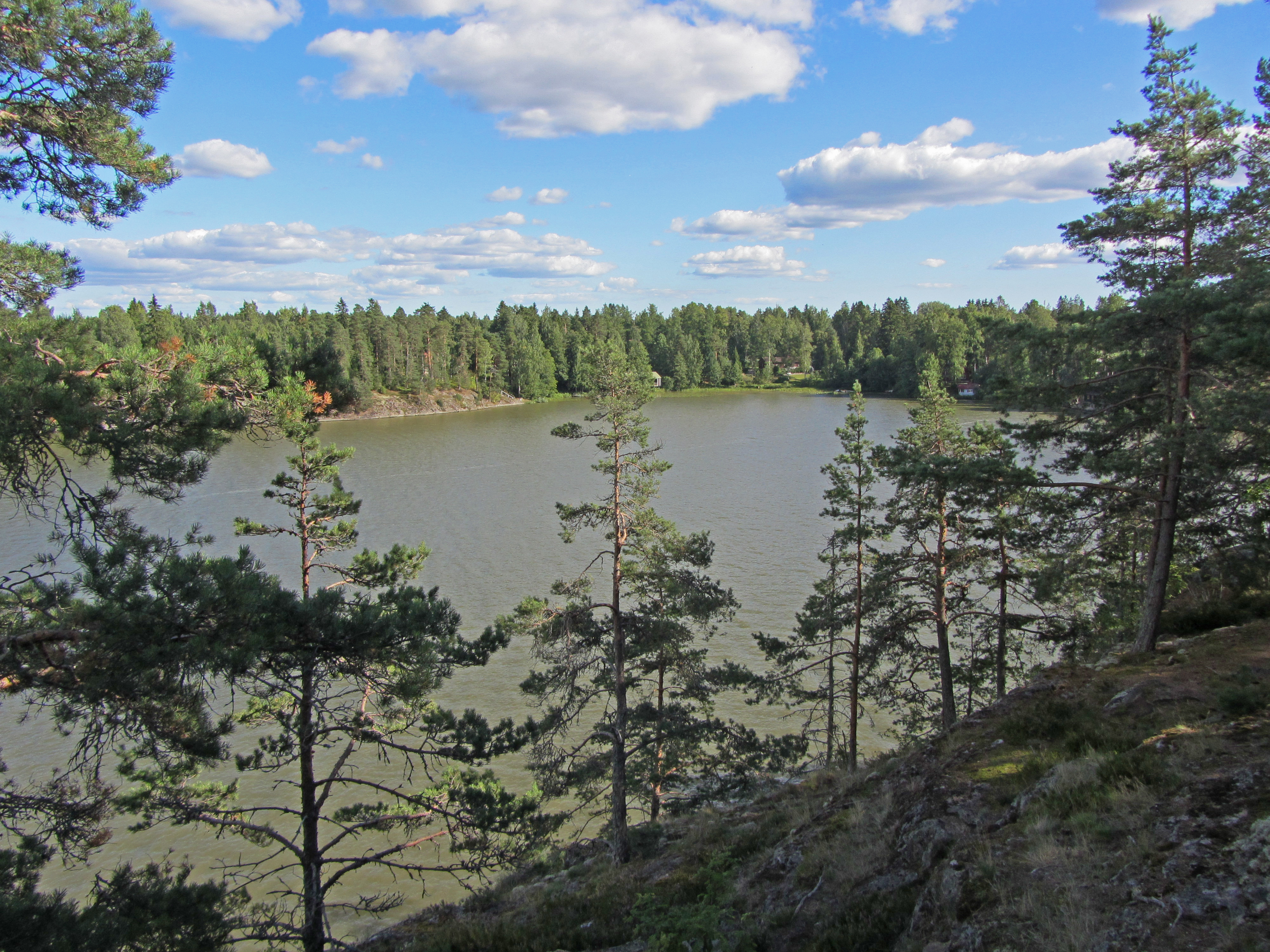 Sarvikallio is located on the west bank of the Lake Tuusulanjärvi.